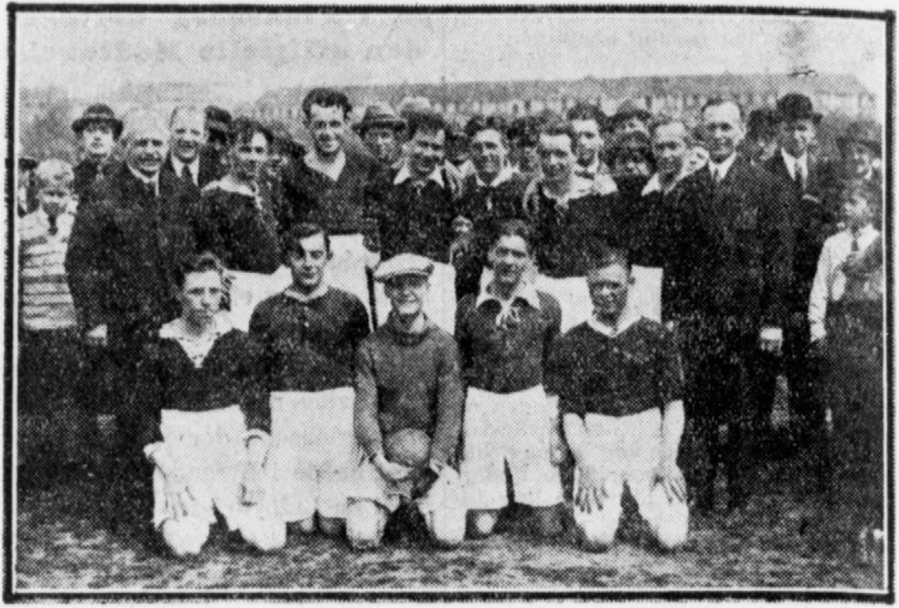 Team line-up of Handelsstandens Boldklub — Group photo of the first senior men's team players of the club following a Danish league match against BK Standard in the 1927-28 KBUs A-række on 22 May 1927.